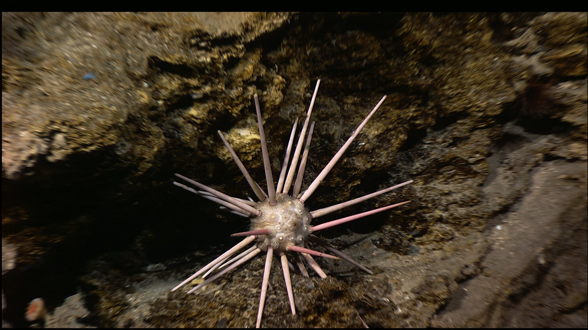 A closeup of the large pencil urchin seen in image expl2258. Atlantic Ocean, Mid-Atlantic Ridge.